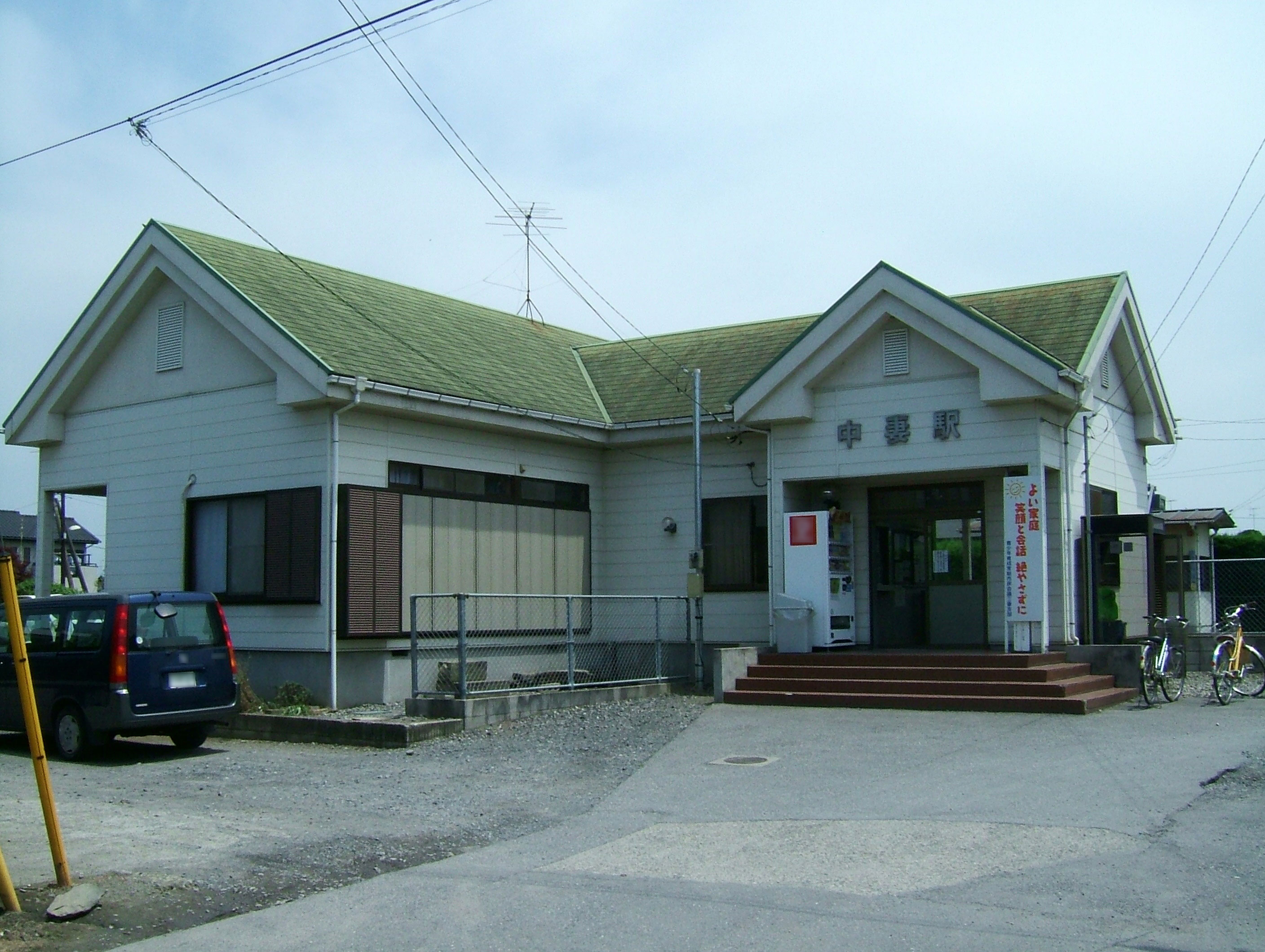 Nakatsuma Station building (Kanto Railway Jōsō Line)